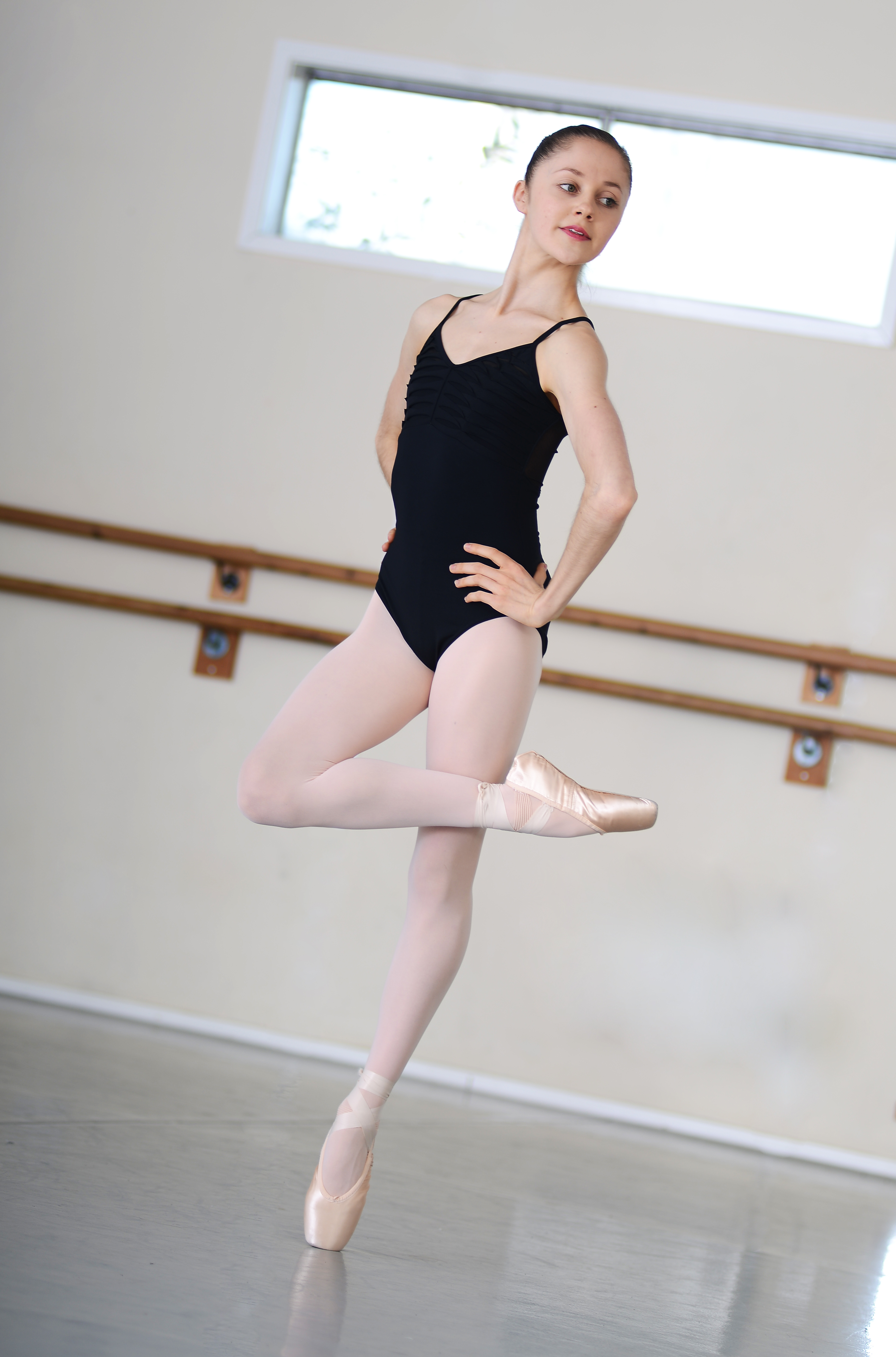 If you use this photo, please credit